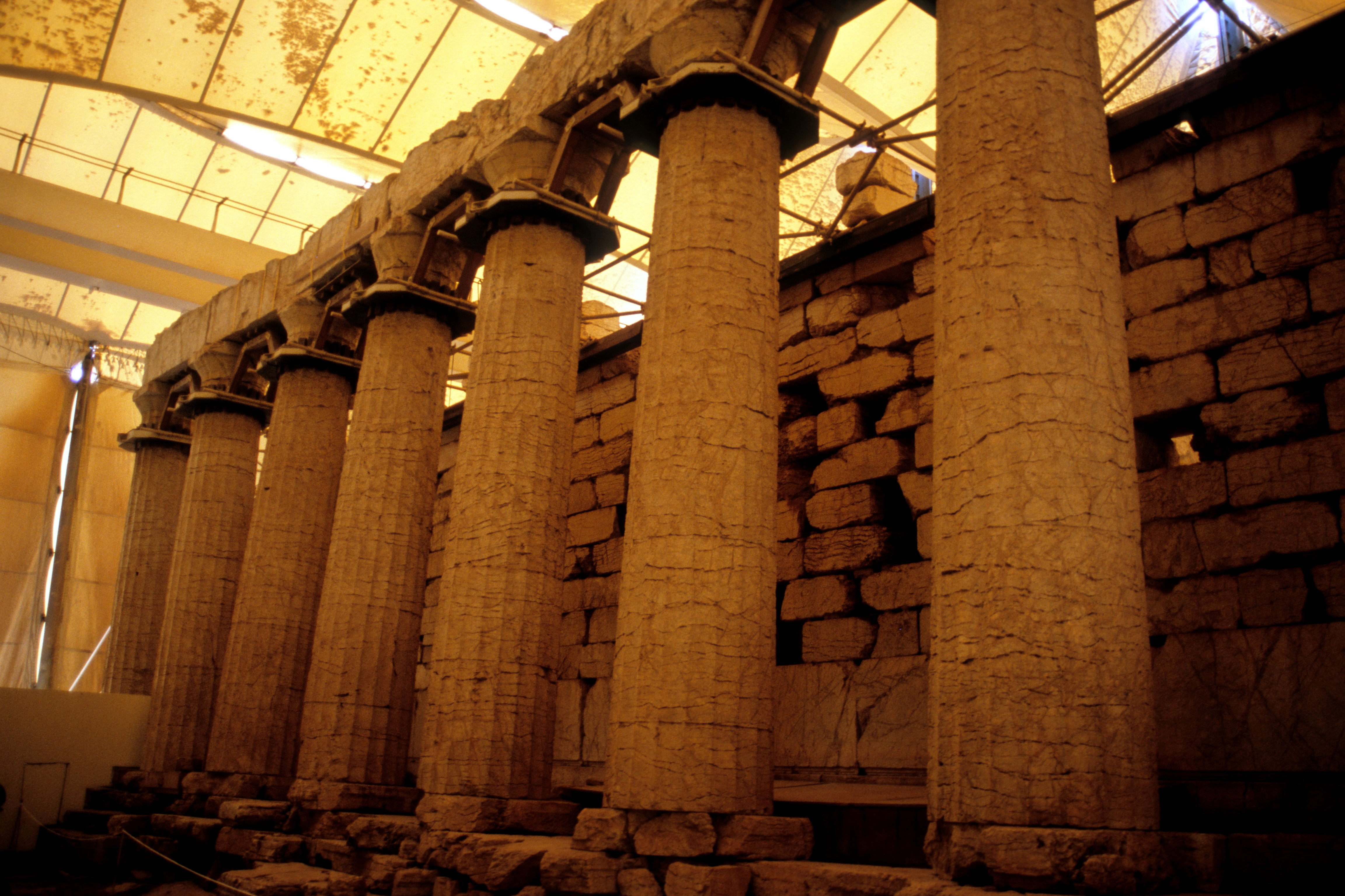 the temple of Apollo Epikourios at Bassae